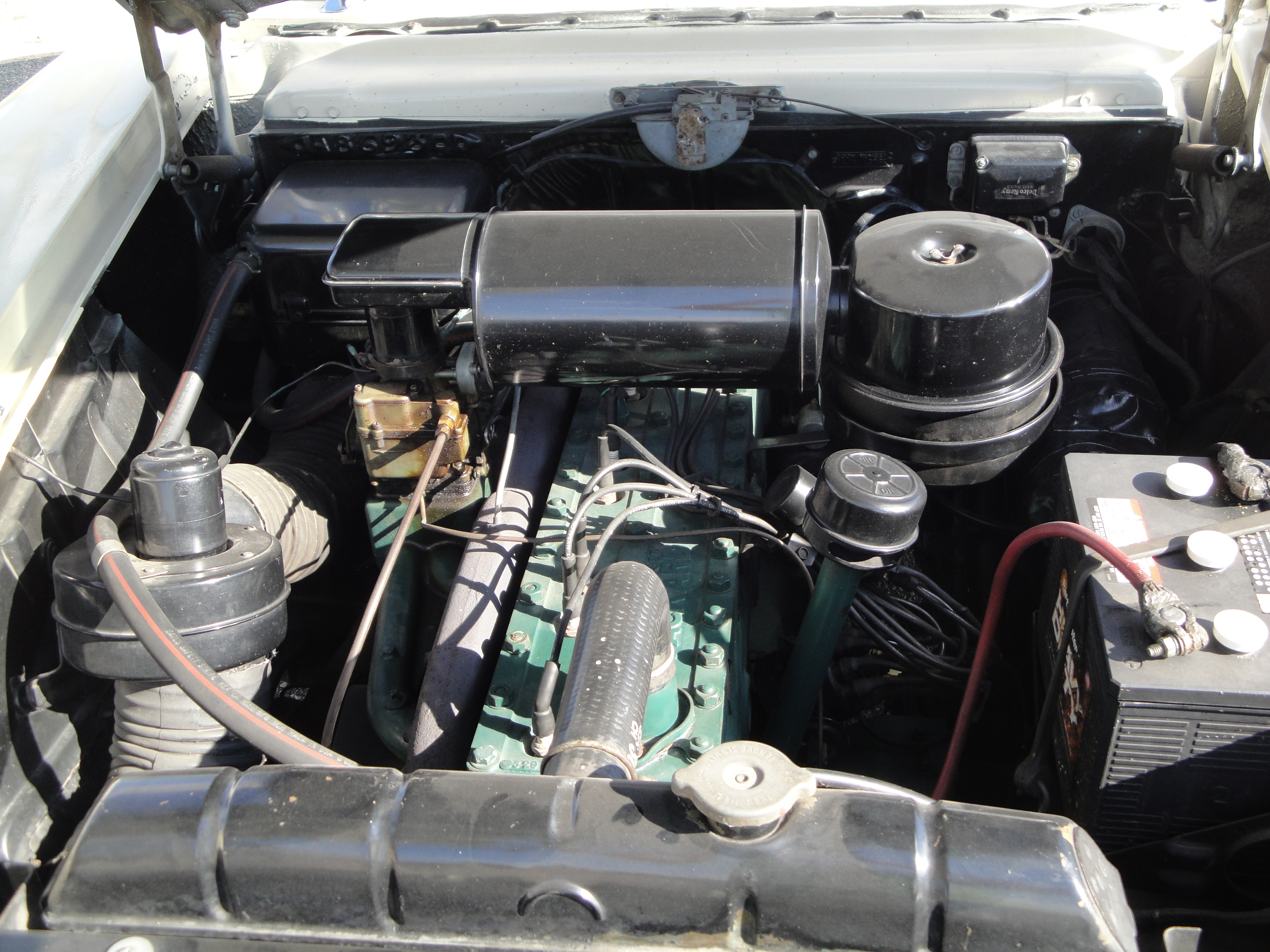 Now that Bud is mostly done with Ruby, his and Sharon's 52 Buick, he has started some crazy talk about selling his 51 Packard. I asked if I could get some pictures before the Packard is gone.